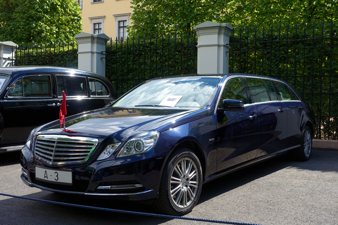 A-3 kronprinsparets offisielle limousine